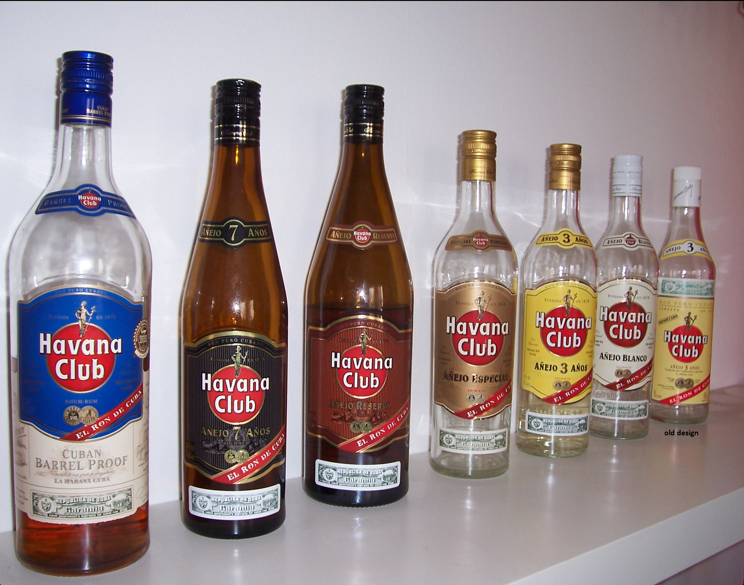 Different bottles of Havana-Club-rum. The last one has an old design and is no longer available in stores.